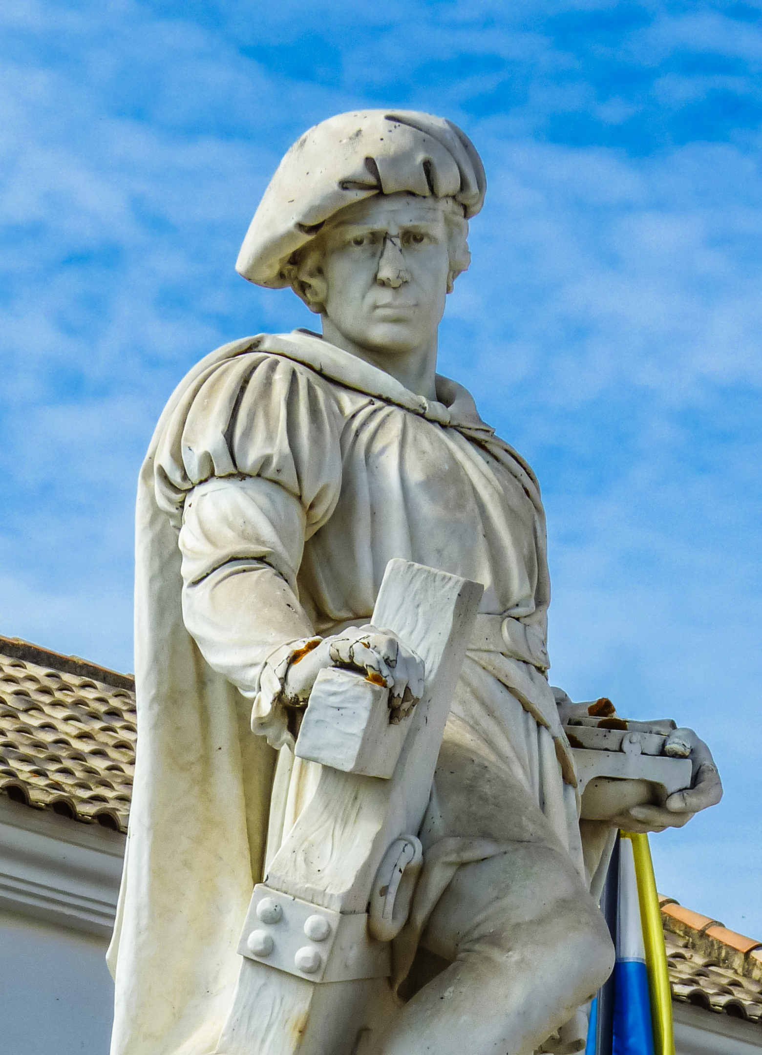 Statue of Martín Alonso Pinzón in Palos de la Frontera